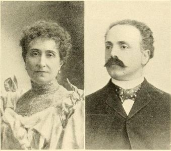 Mrs J.B. Pioda and Mr. J.B. Piosa, Swiss Ambassador